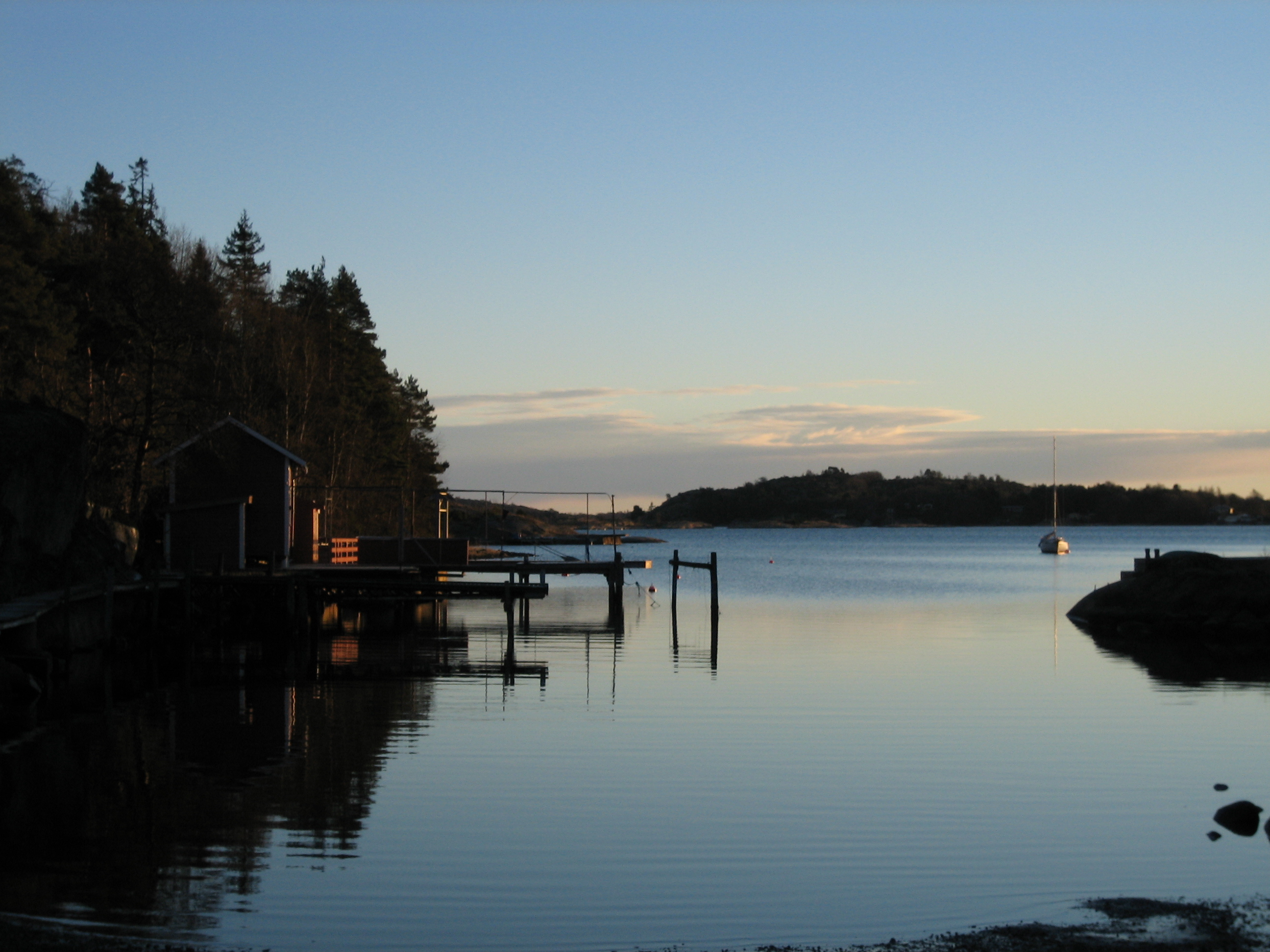 Tjøme, Norway